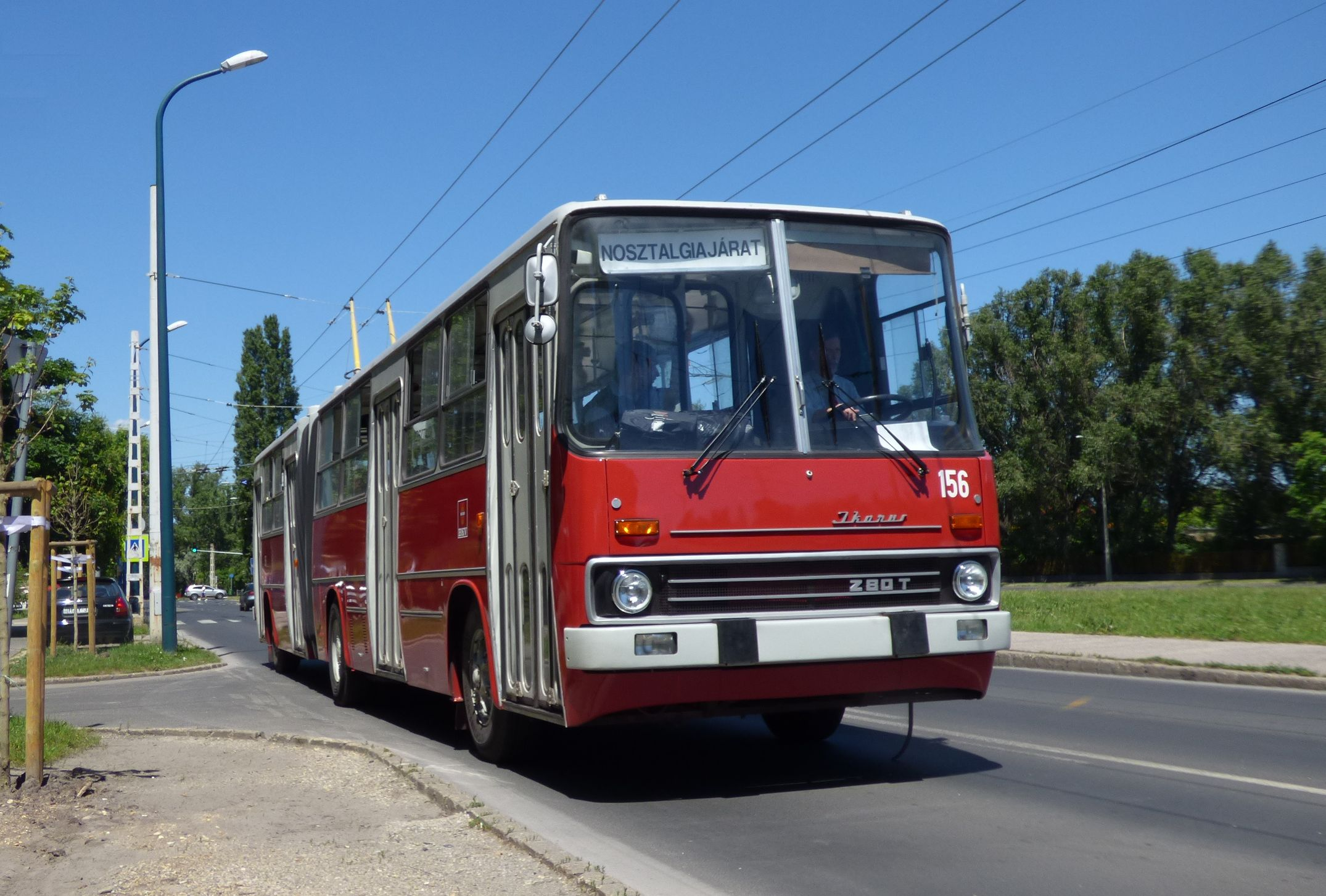 Heritage trolleybus (Ikarus 280T), Budapest Csertő utca (cn. 156)